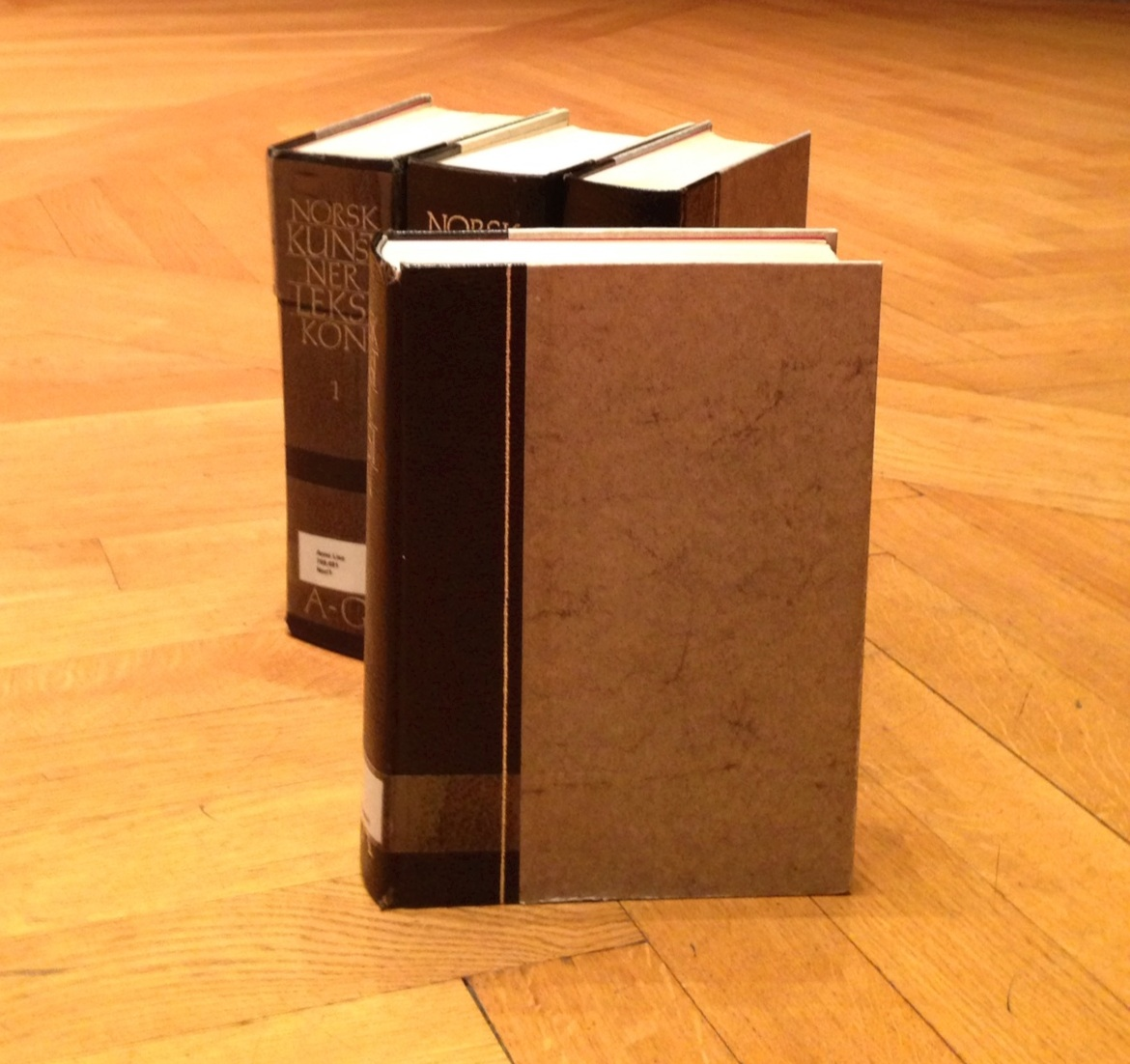 This is a picture of the four volume Dictionary of Norwegian Artists